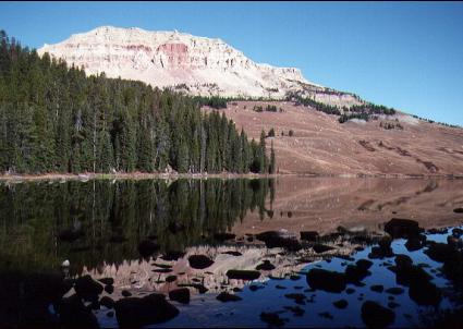 Beartooth Lake in Shoshone National Forest, Wyoming, United States